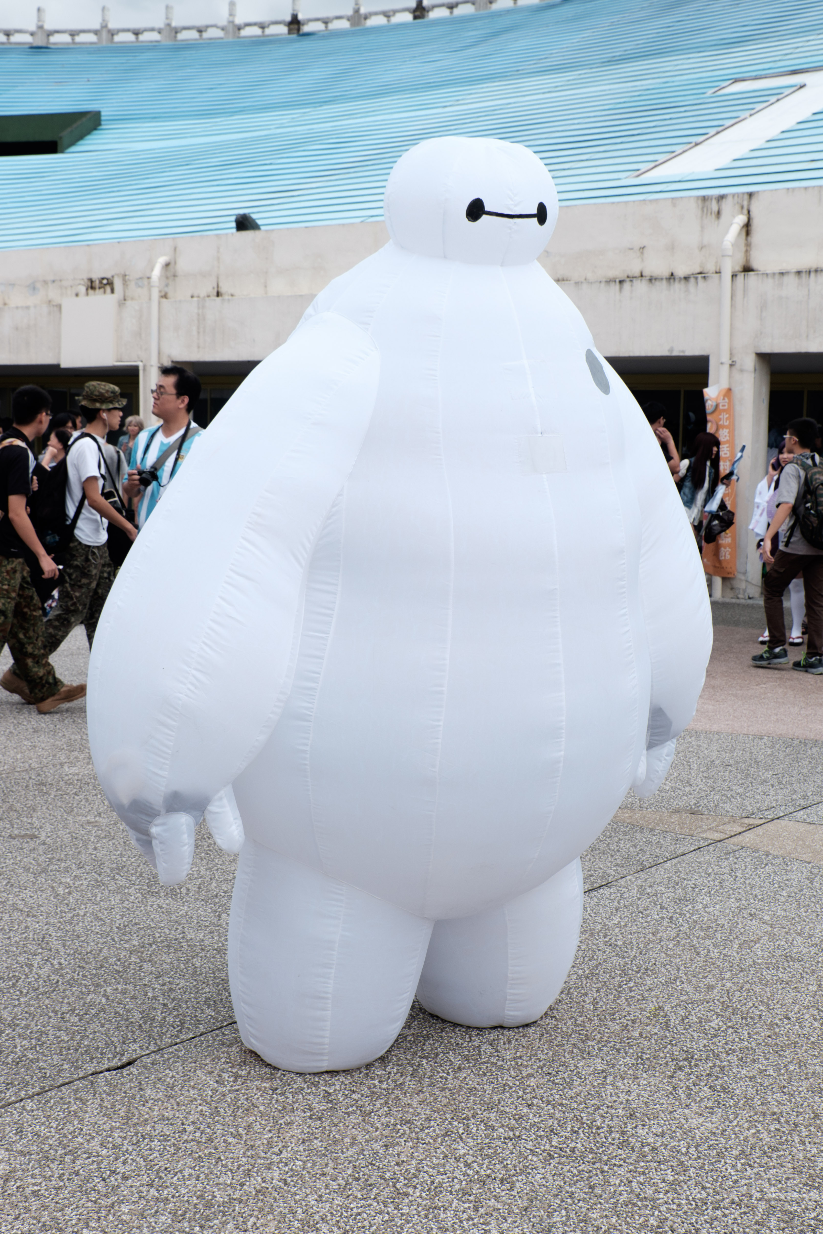 中文（台灣）: Fancy Frontier 26第一日中午，＜大英雄天團＞杯麵充氣布偶裝cosplayer。